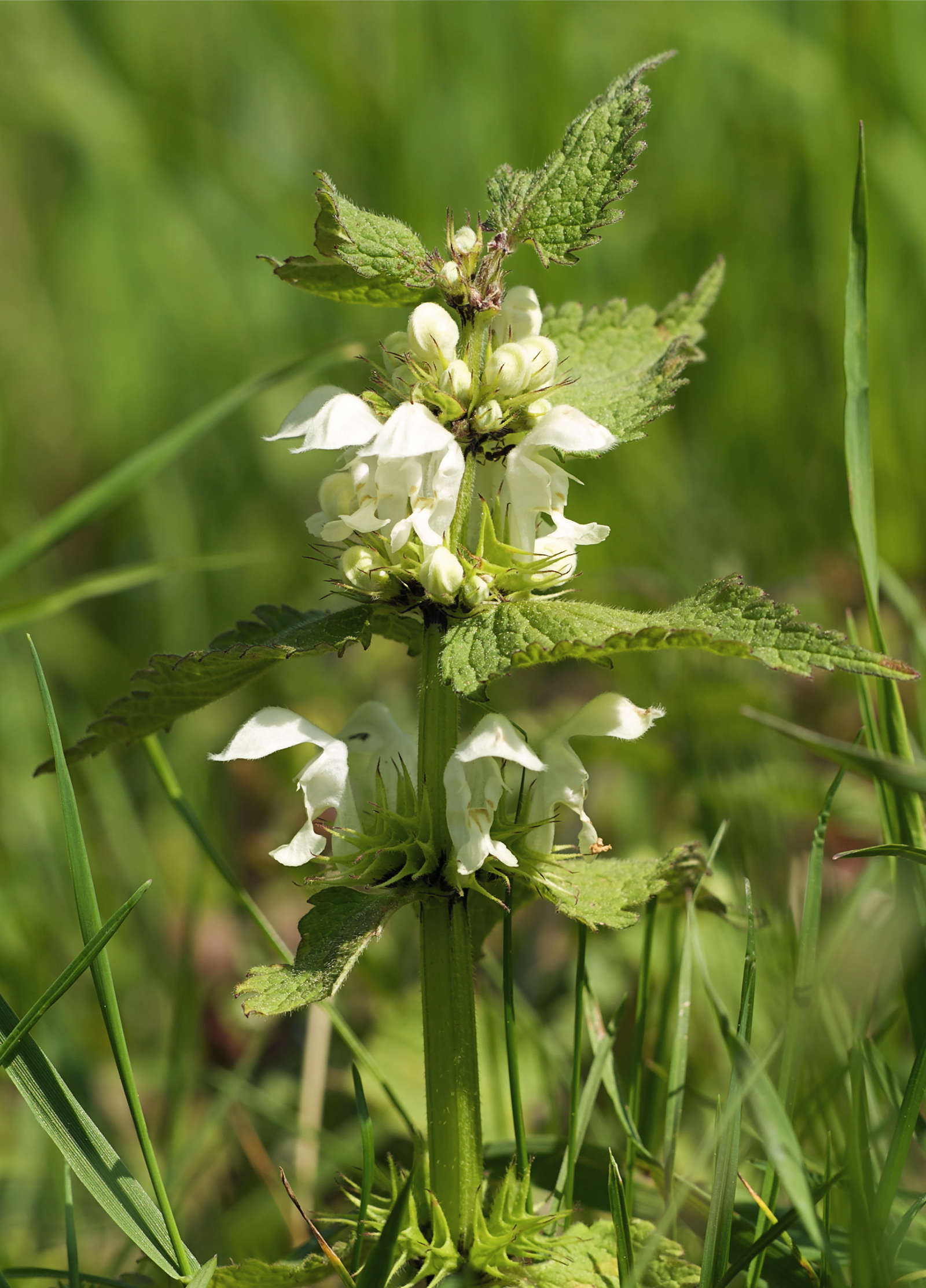 White Deadnettle (Lamium album), Chemnitz, Germany